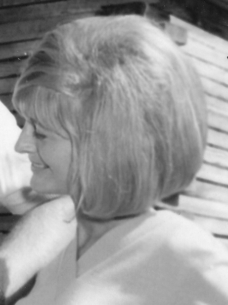 Mike and Judy Farrell at Knott's Berry Farm. Mike is presented with a "Wanted" poster by Ghost Town Marshal Paul Steelman.